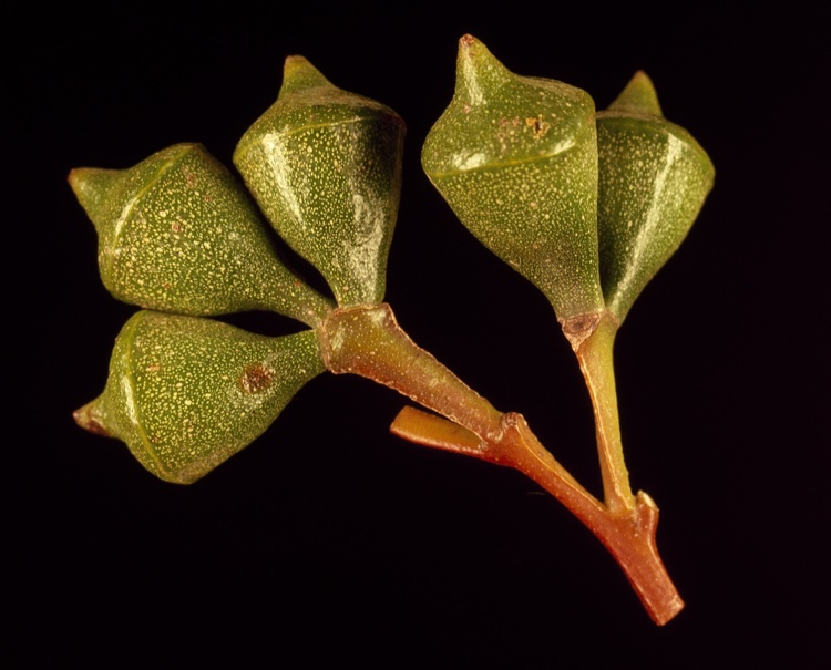 Flowr buds of Eucalyptus megacarpa